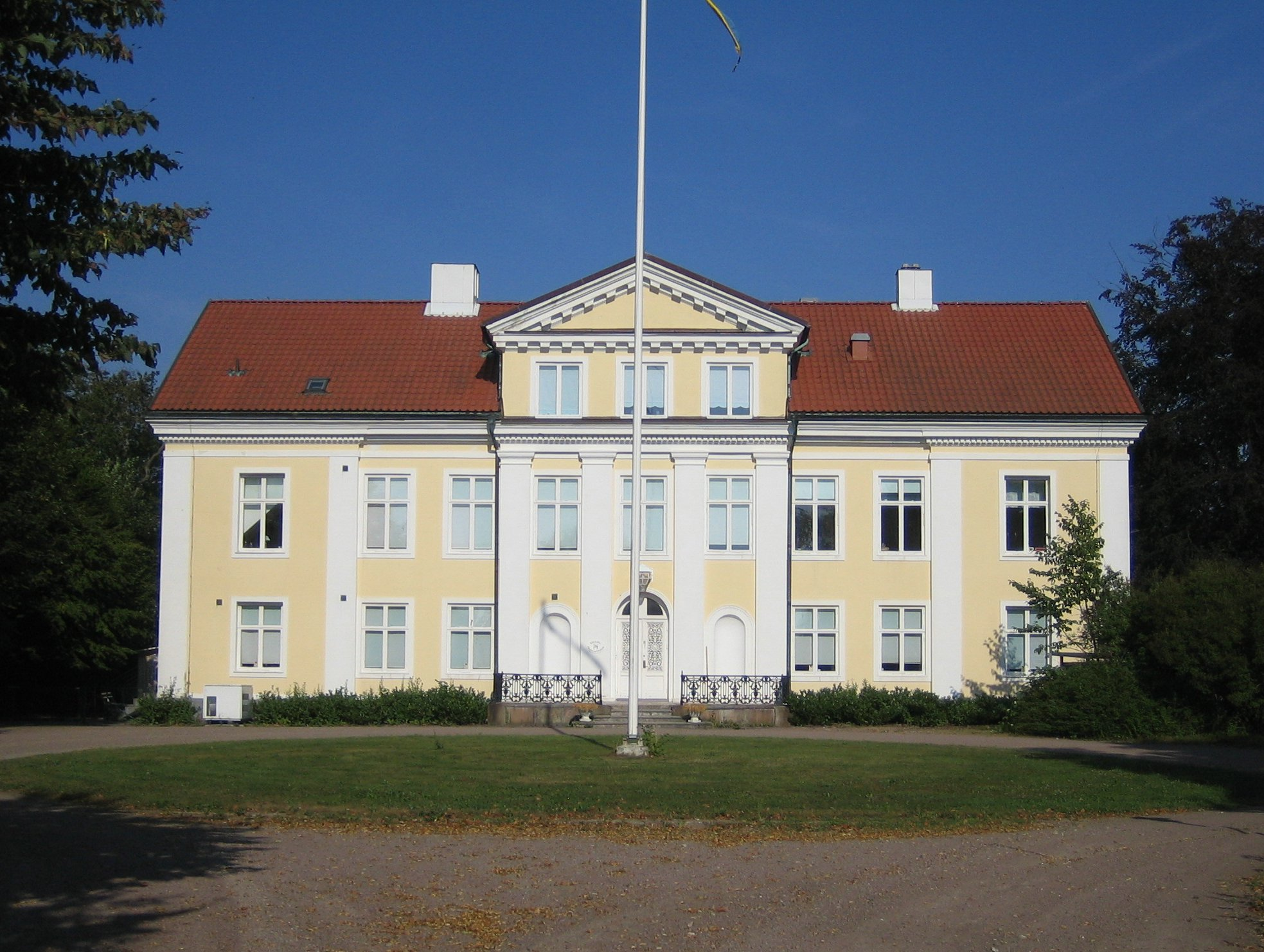 Picture of Säbyholm manor in Scania, Sweden.